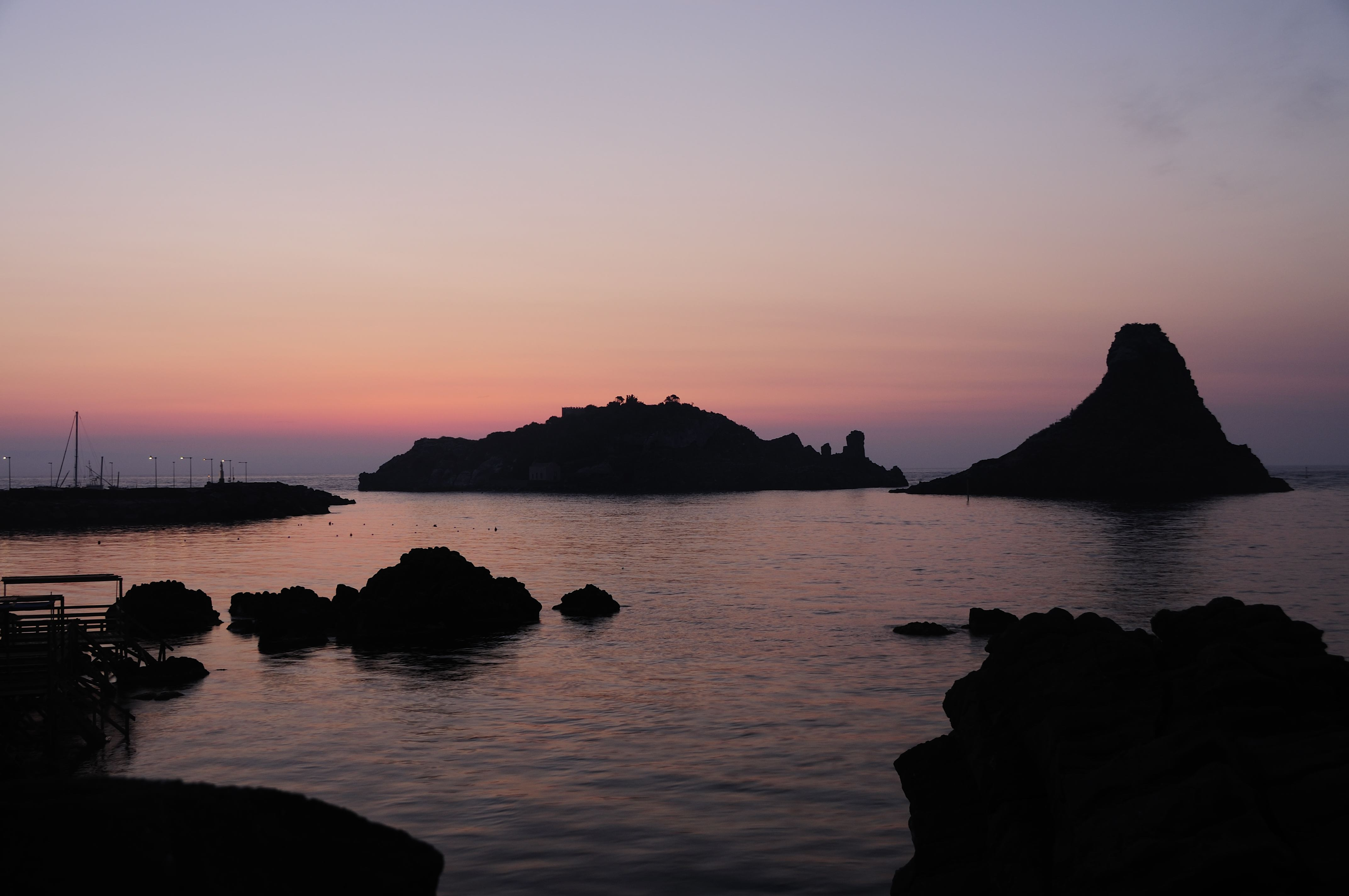 See more ... The Islands of the Cyclops Of the coast of Aci Trezza are three tall, column-shaped islands. According to local legend, these great stones are the ones thrown at Odysseus in The Odyssey. The islands are referred to as the "isole dei ciclopi" (islands of the Cyclops, or Cyclopean Isles) by locals. This compliments the notion that the Cyclops once had a smithy below Mount Etna, which looms over the village to the northwest. Aci Trezza is a town in Sicily, southern Italy, a frazione of the comune of Aci Castello, c. 10 km north of Catania, with a population of around 5,000 people. Located on the coast of the Ionian Sea, the village has a long history of maritime activity. Aci Trezza is a popular spot for Italian vacationers in the summer. The patron Saint of the town is St. John the Baptist. The Festa of San Giovanni is celebrated each year during the last week of June 24 in his honor. Le Isole dei Ciclopi Il panorama di Aci Trezza è dominato dai faraglioni dei Ciclopi: otto pittoreschi scogli basaltici che, secondo la leggenda, furono lanciati da Polifemo ad Ulisse durante la sua fuga. I faraglioni compaiono sugli stemmi dei comuni di Aci Castello, Acireale, Aci Bonaccorsi, Aci Catena. Poco distante dalla costa (a circa 400 m di distanza), è presente l'Isola Lachea, identificata con l'omerica Isola delle Capre e che attualmente ospita la sede di una stazione di studi di biologia dell'Università degli Studi di Catania.